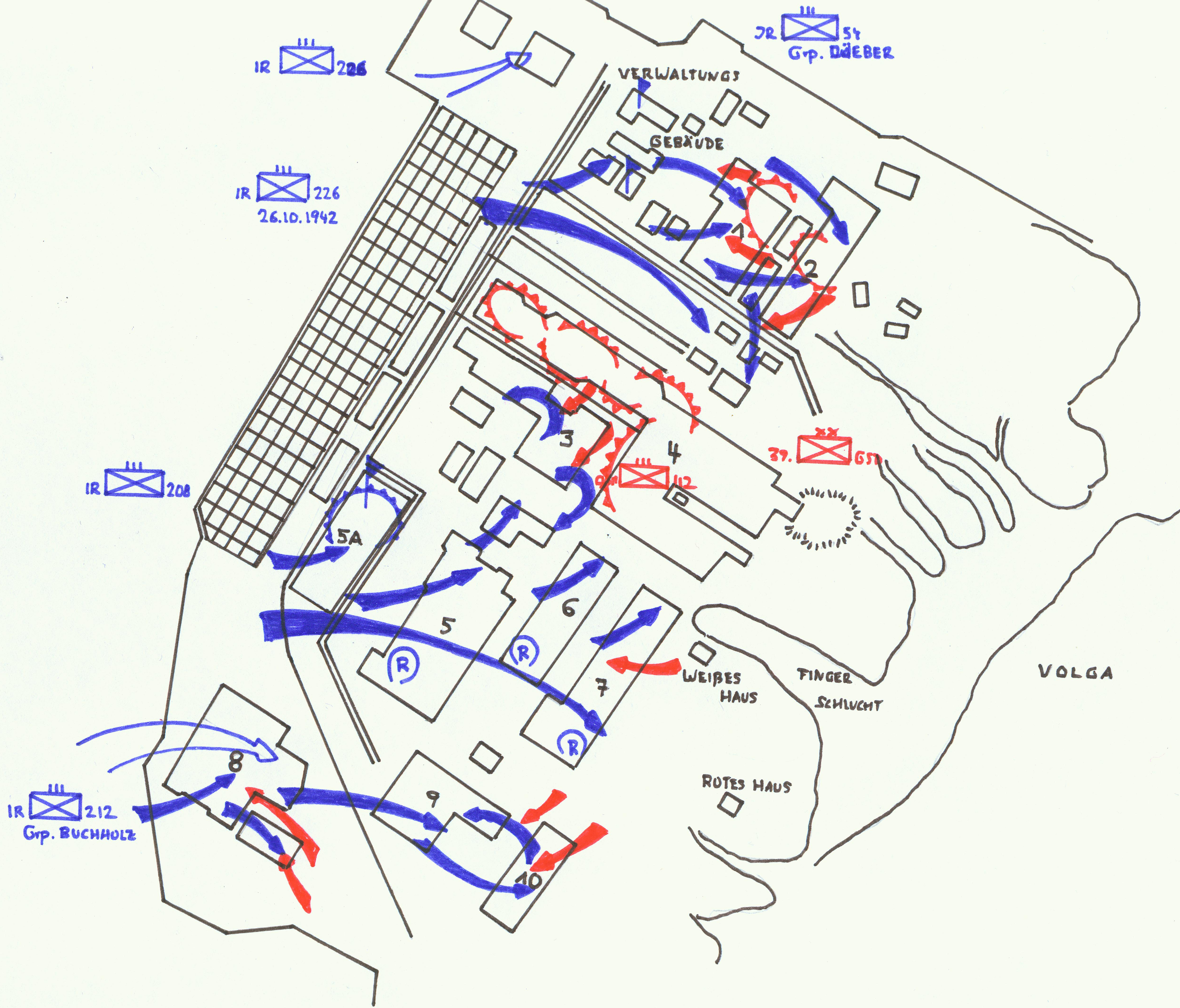 German Attack on Red October Steel Plant